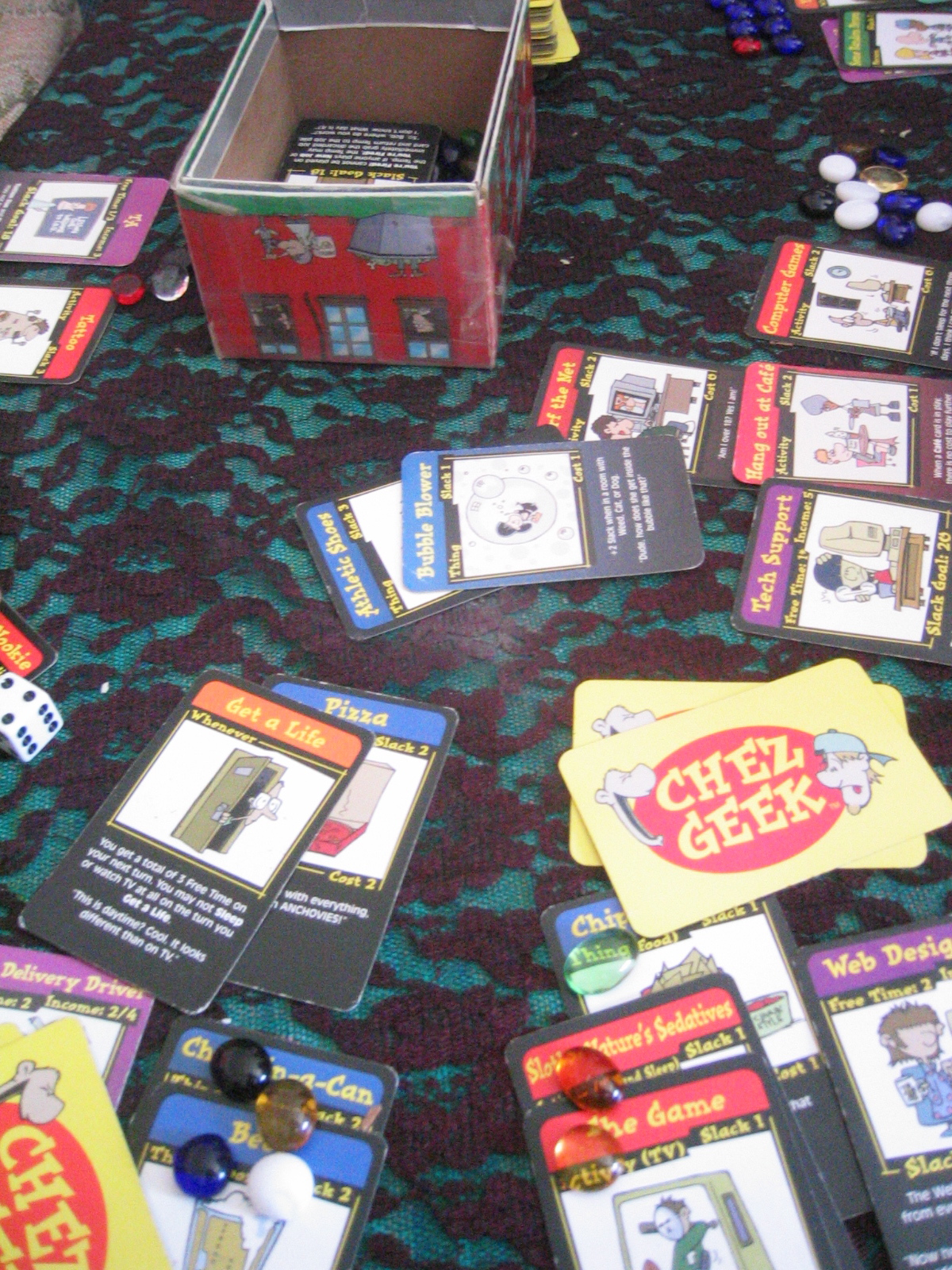 Photo of the Chez Geek card game in play.